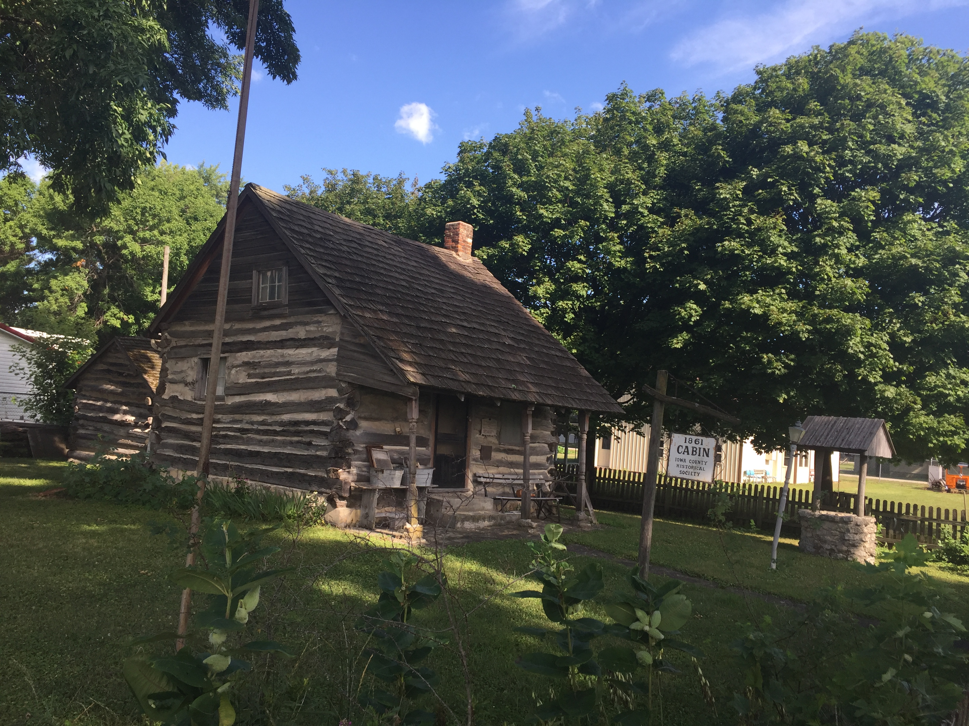 Pioneer Heritage Museum, Marengo, Iowa - 1861 Log Cabin